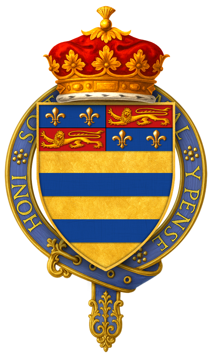 Garter-encircled shield of arms of Henry Manners, 8th Duke of Rutland, KG, as displayed on his Order of the Garter stall plate in St. George's Chapel.